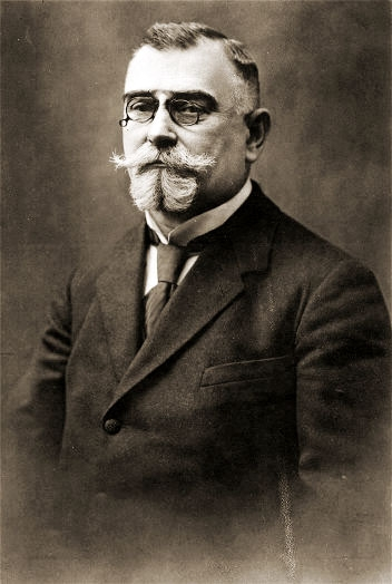 Kost Levytsky (1859-1941) Ukrainian politician. He was a founder of the Ukrainian National Democratic movement.